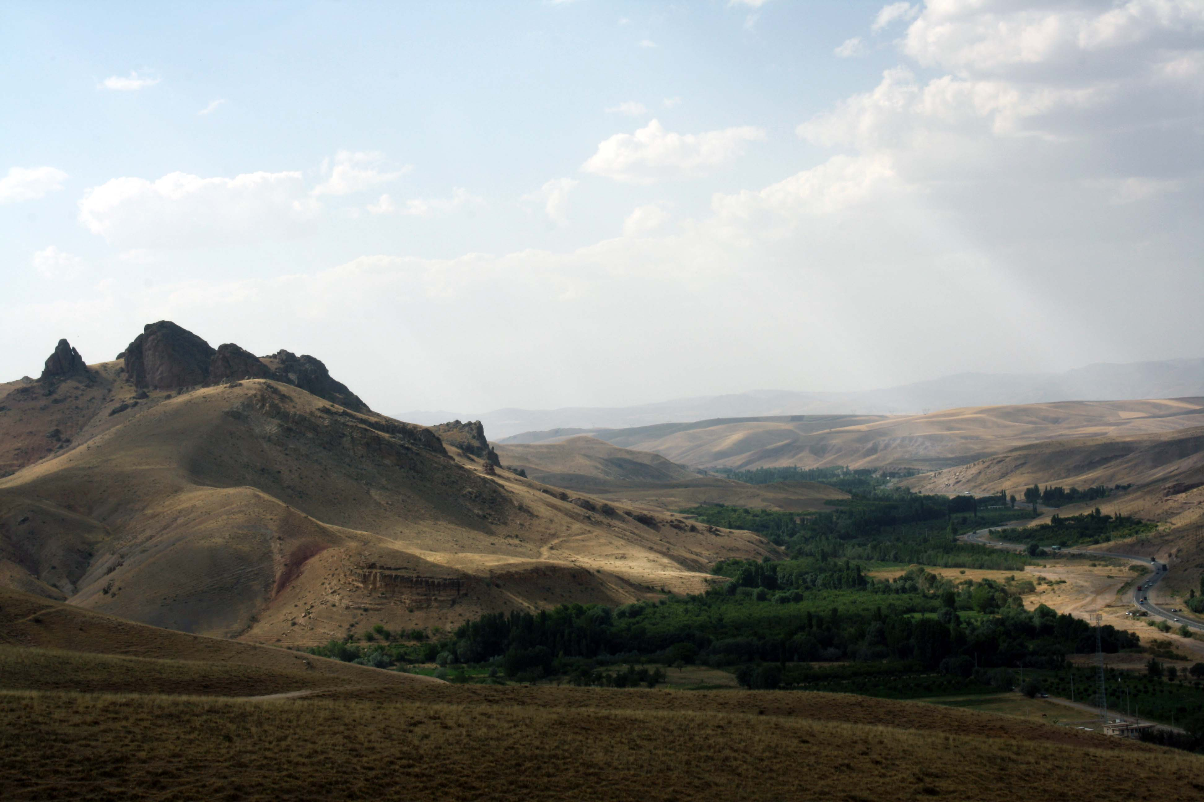 Gug Daraq